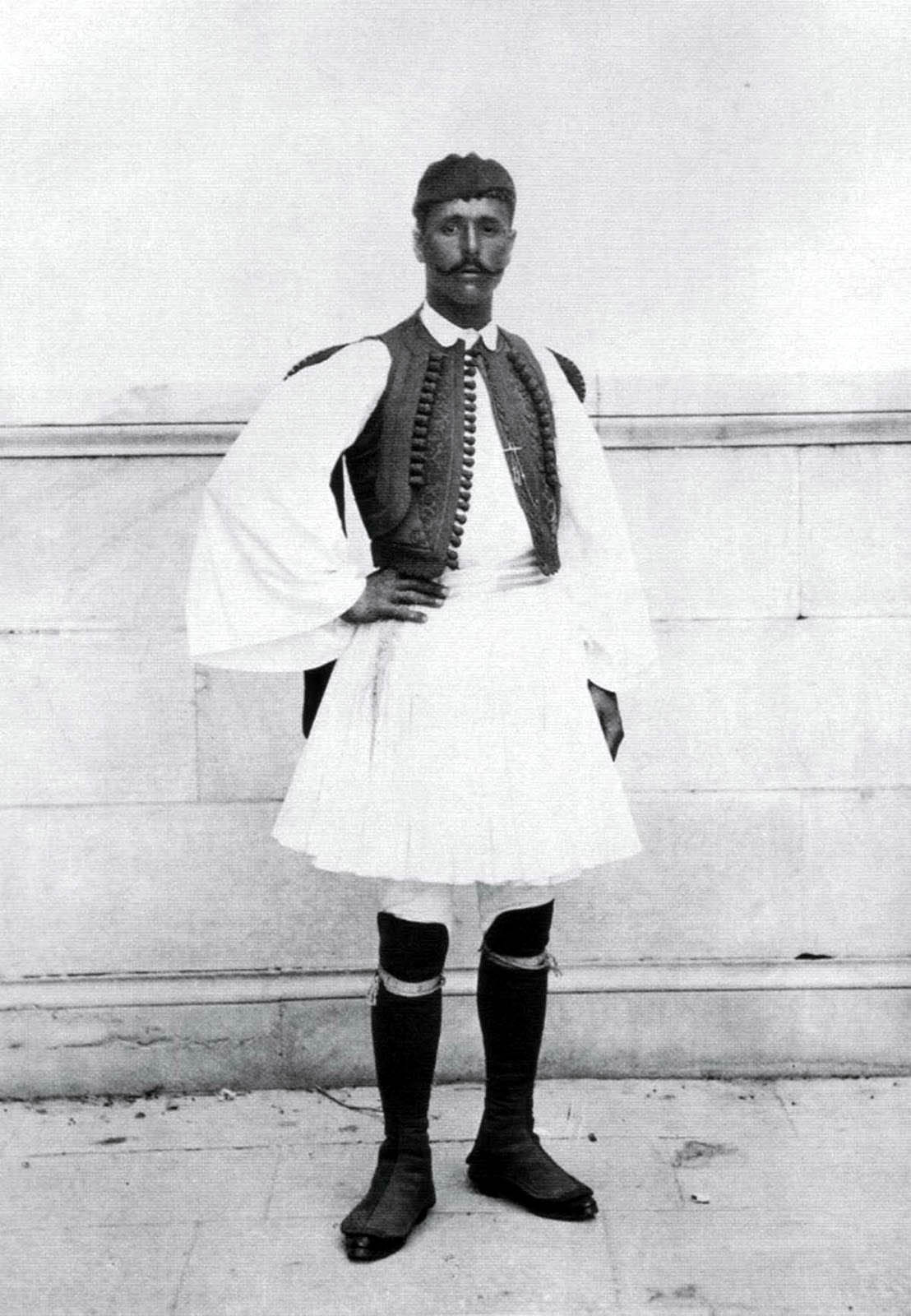 Olympic Games 1896, Athens. The greec Olympic champion in the marathon, Spiridon Louis.